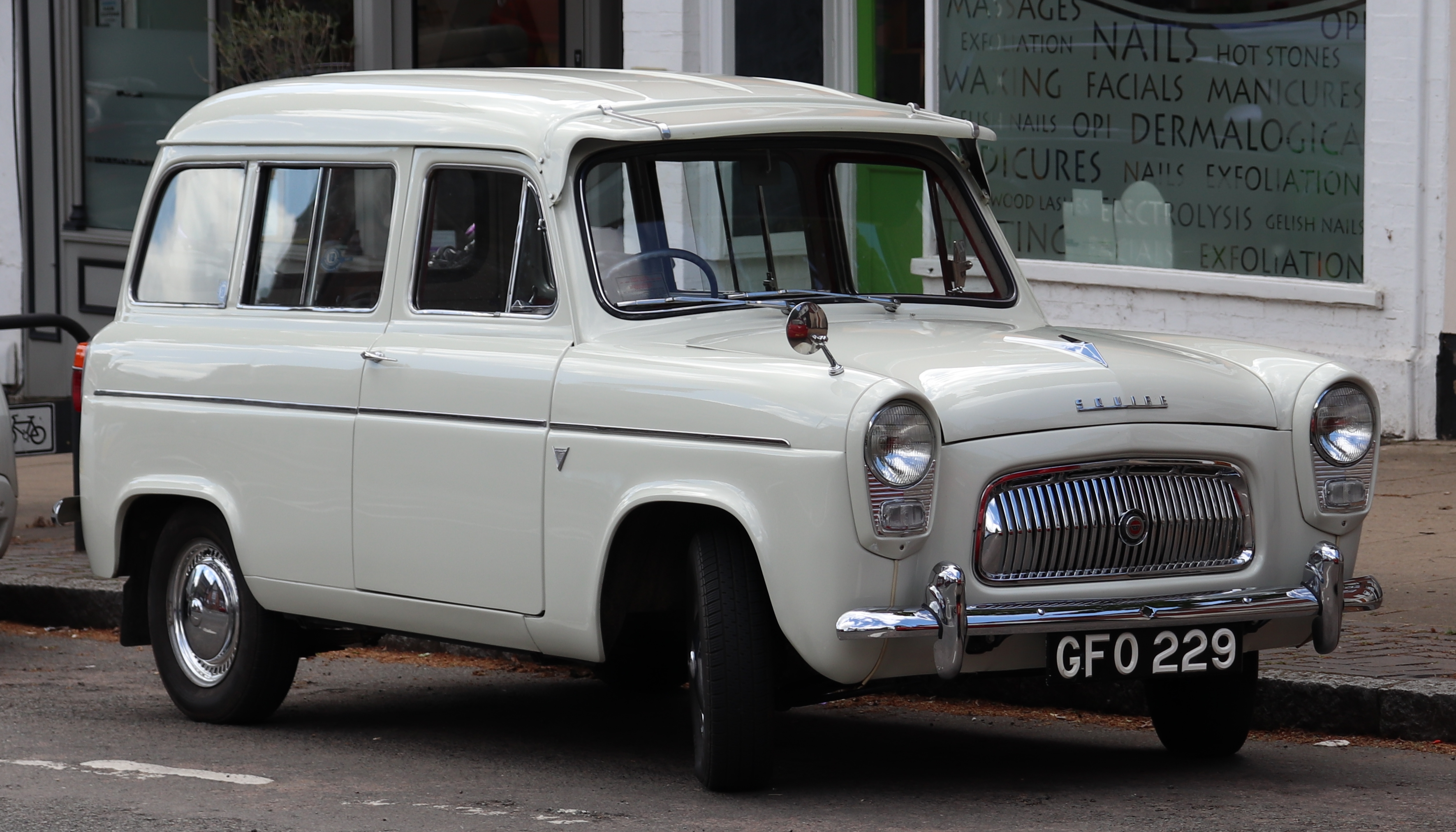 1959 Ford Squire 100E 1.1 Front